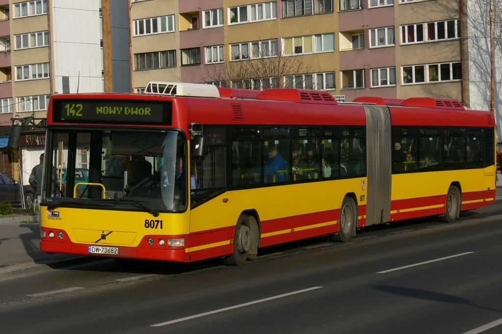 Volvo 7000A city bus (#8071) in Wrocław, Poland. Year built 2001, MPK Wrocław operator.